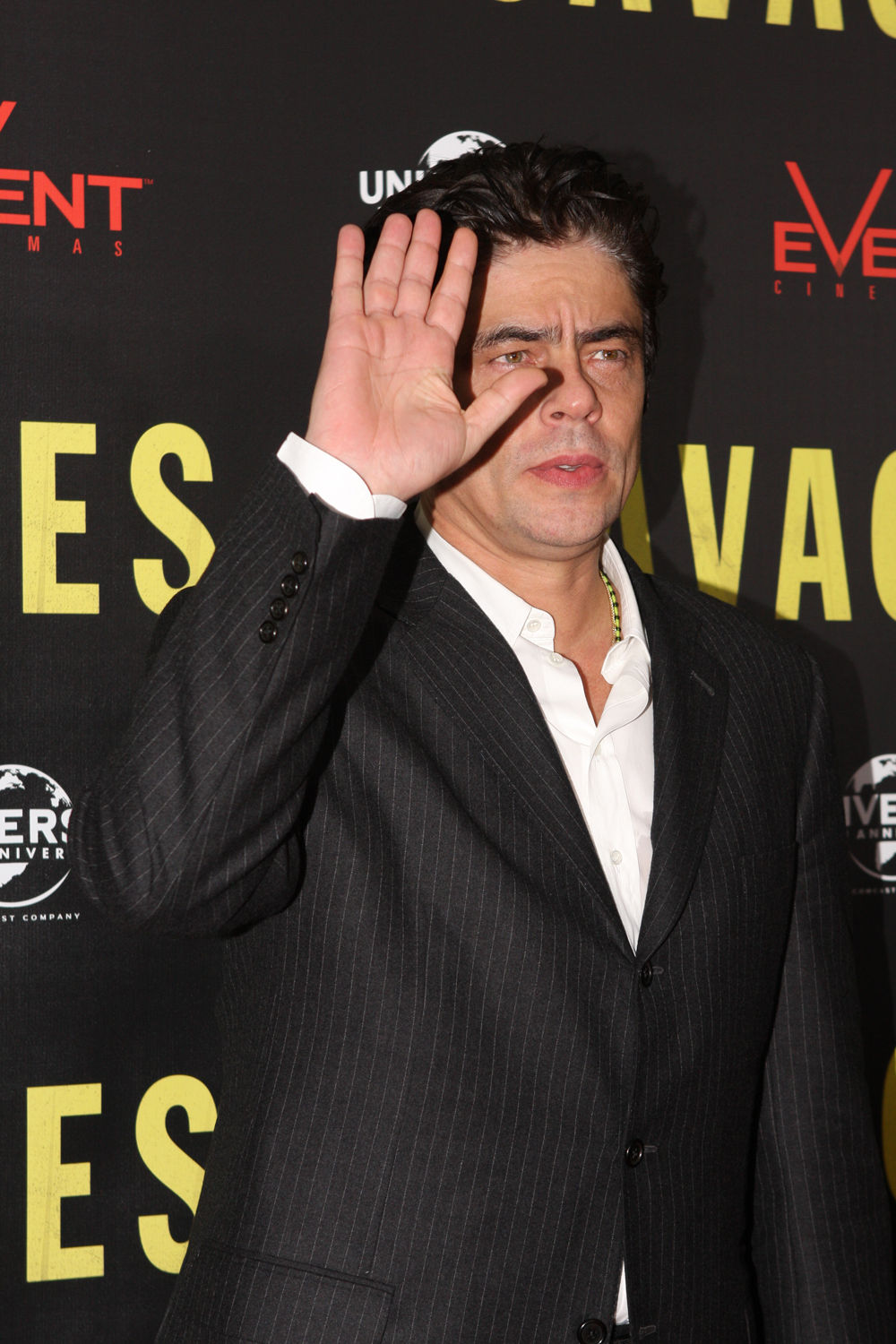 Benicio Del Toro attends red carpet movie premier; Event Cinemas, Sydney, Australia... Savages enjoyed its red carpet premiere in Sydney, Australia tonight. Savages star Benicio Del Toro told media meeting real ex-drug cartel members was a similar feeling to climbing the Sydney Harbour Bridge.